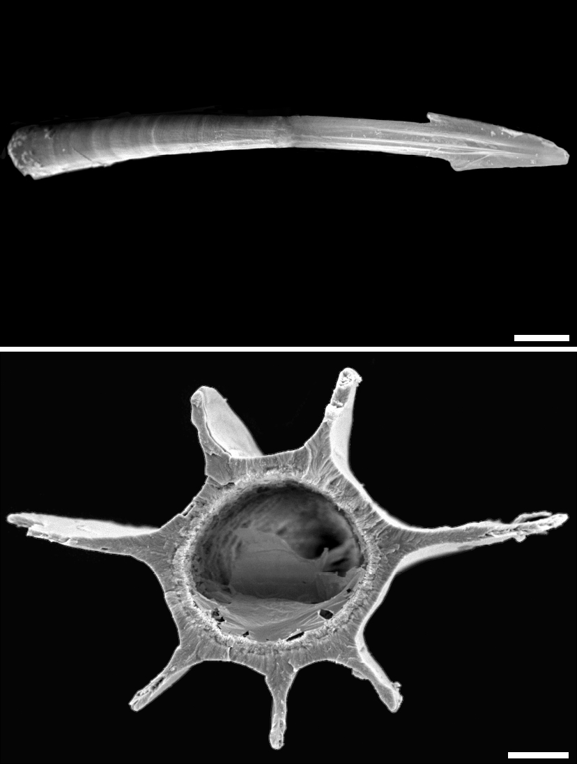 Scanning electron microscopic (SEM) images love-dart of Monachoides vicinus. Upper image is love dart from side view while the measure is 500 μm (0.5 mm). Lower image is cross-section while the measure is 50 μm.